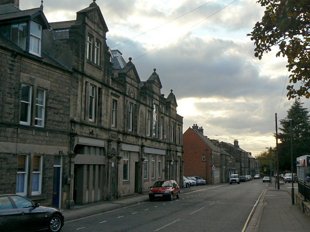 Smedley Street Named after John Smedley, who put Matlock on the map as a hydropathic spa, it is the principal street across the slope of Matlock Bank.